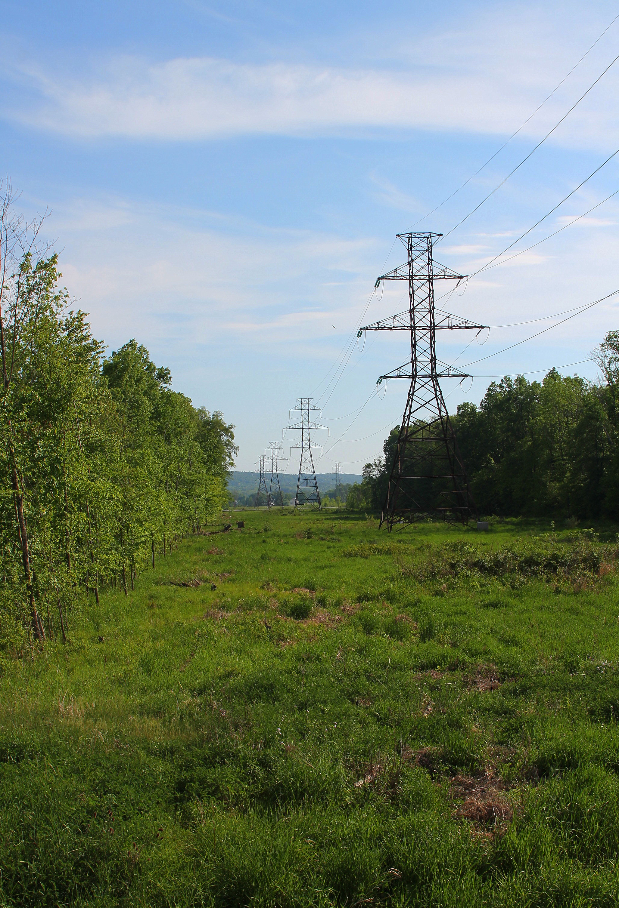 Power lines in Derry Township, Montour County, Pennsylvania from Ppl Road.